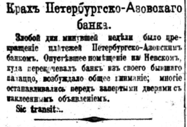 The collapse of the Petersburgsko-Azovky bank (Petersburgsky Listok. 1902. Mars 3. № 60. P. 7)